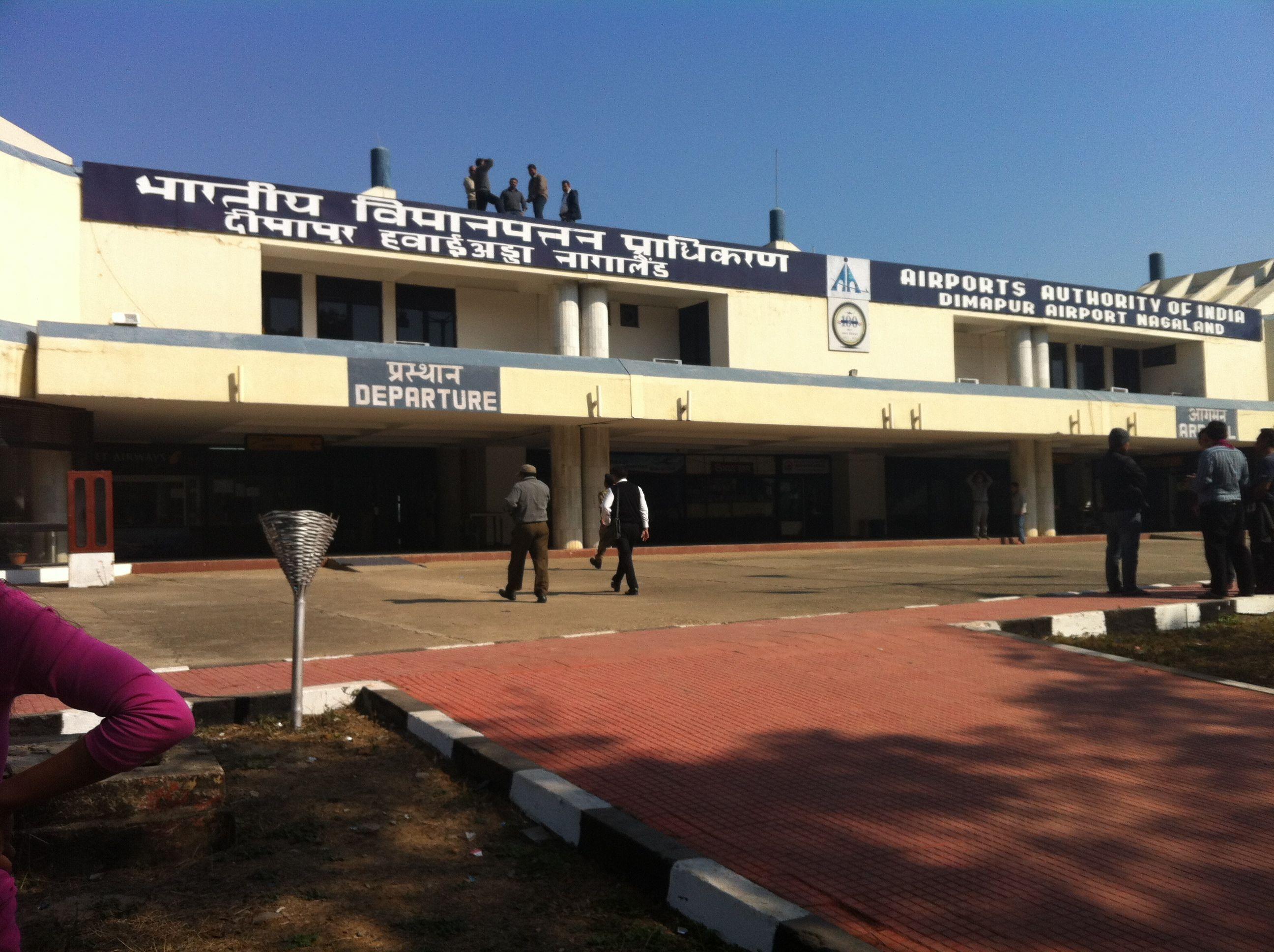 Dimapur airport from the parking Bay